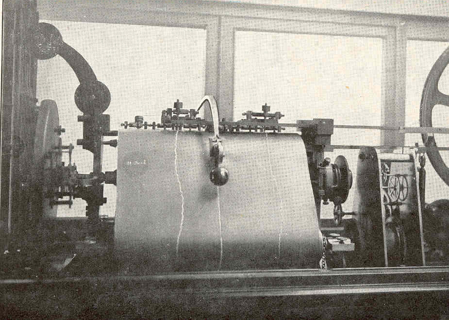 Subject: Tide gages, Oceanographic instruments Tag: Coasts